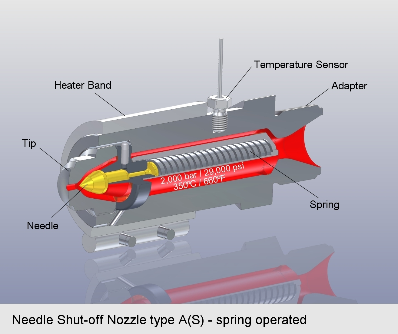 Needle Shut-off Nozzle type A(S) - spring operated info